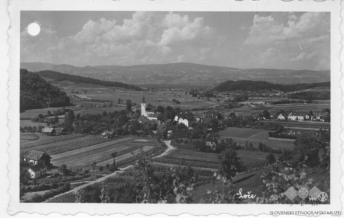 Postcard of Loče, Slovenske Konjice